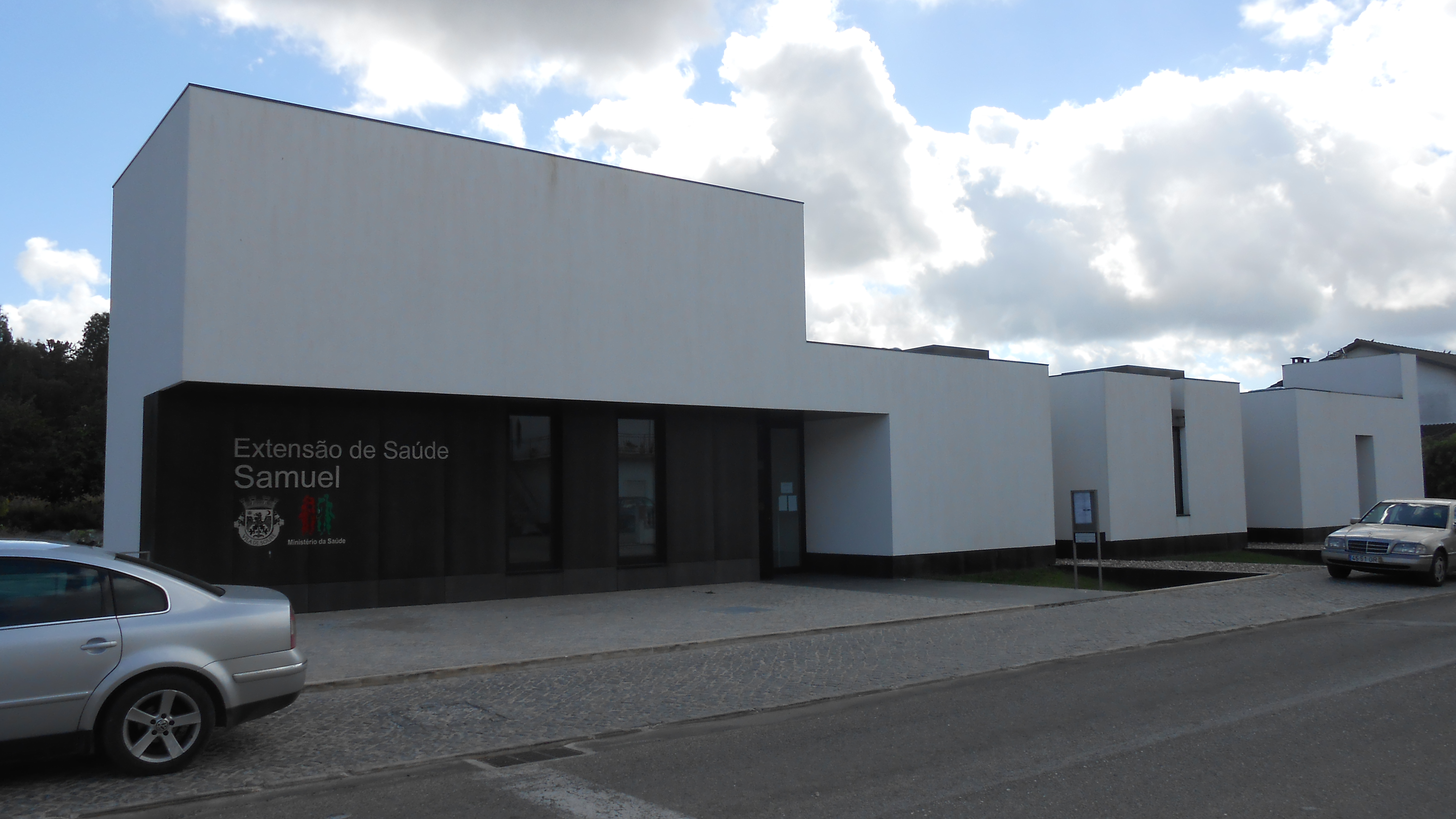 The health centre in Coles, Samuel parish, municipality of Soure, Coimbra district, Portugal.